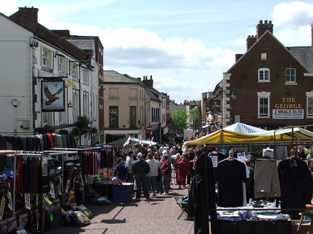 Oswestry Marketplace.